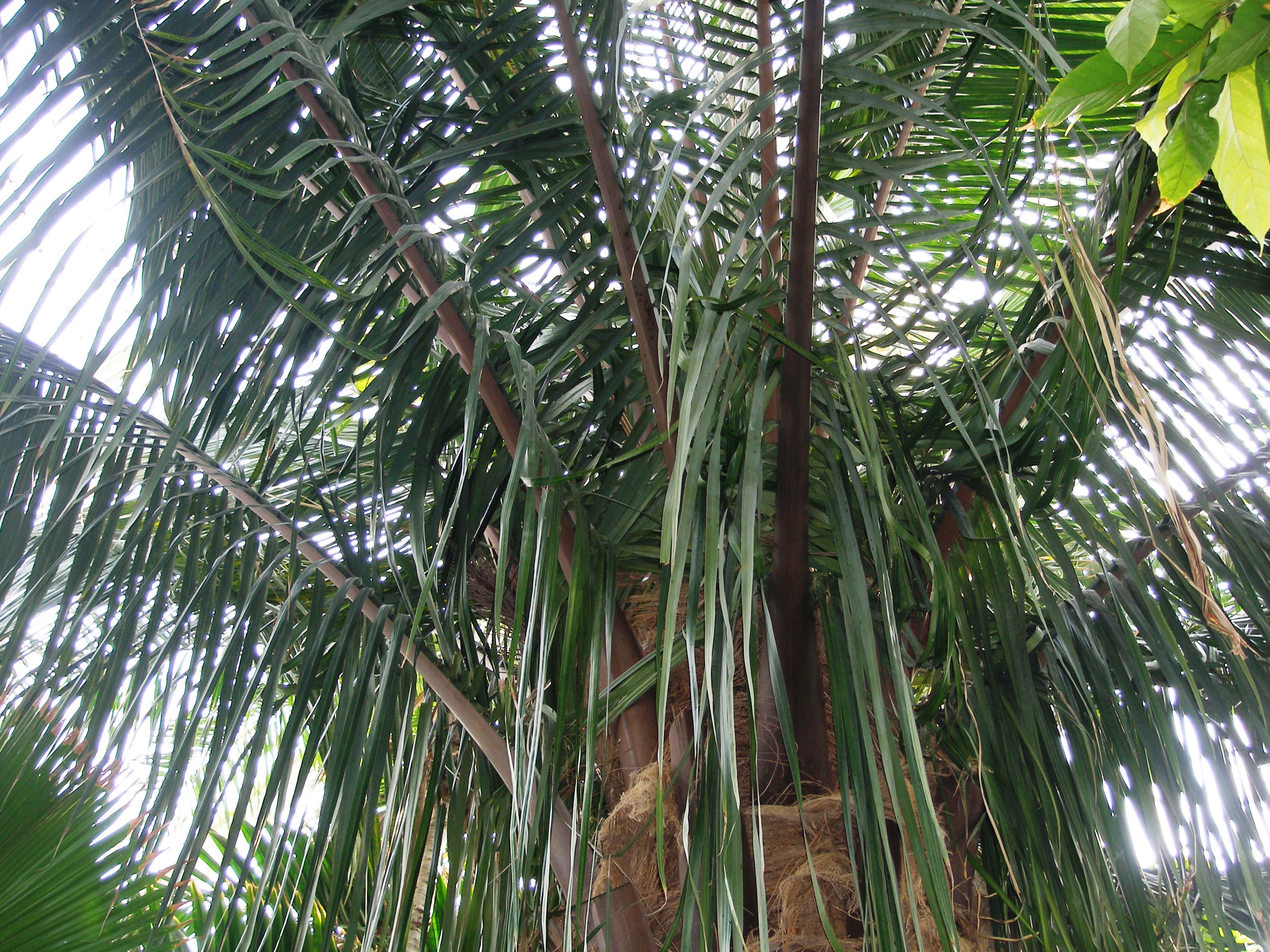 Specimen in cultivation at the Royal Botanic Gardens, Kew, United Kingdom.